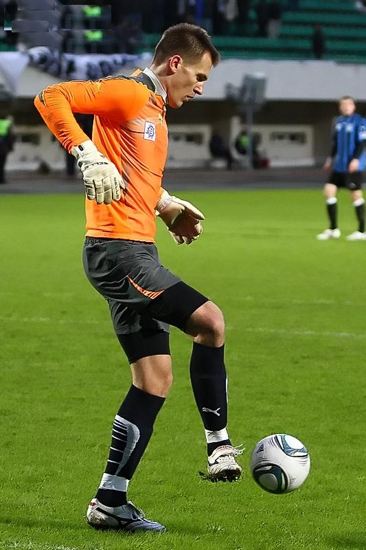 Artyom Rebrov with FC Shinnik Yaroslavl.